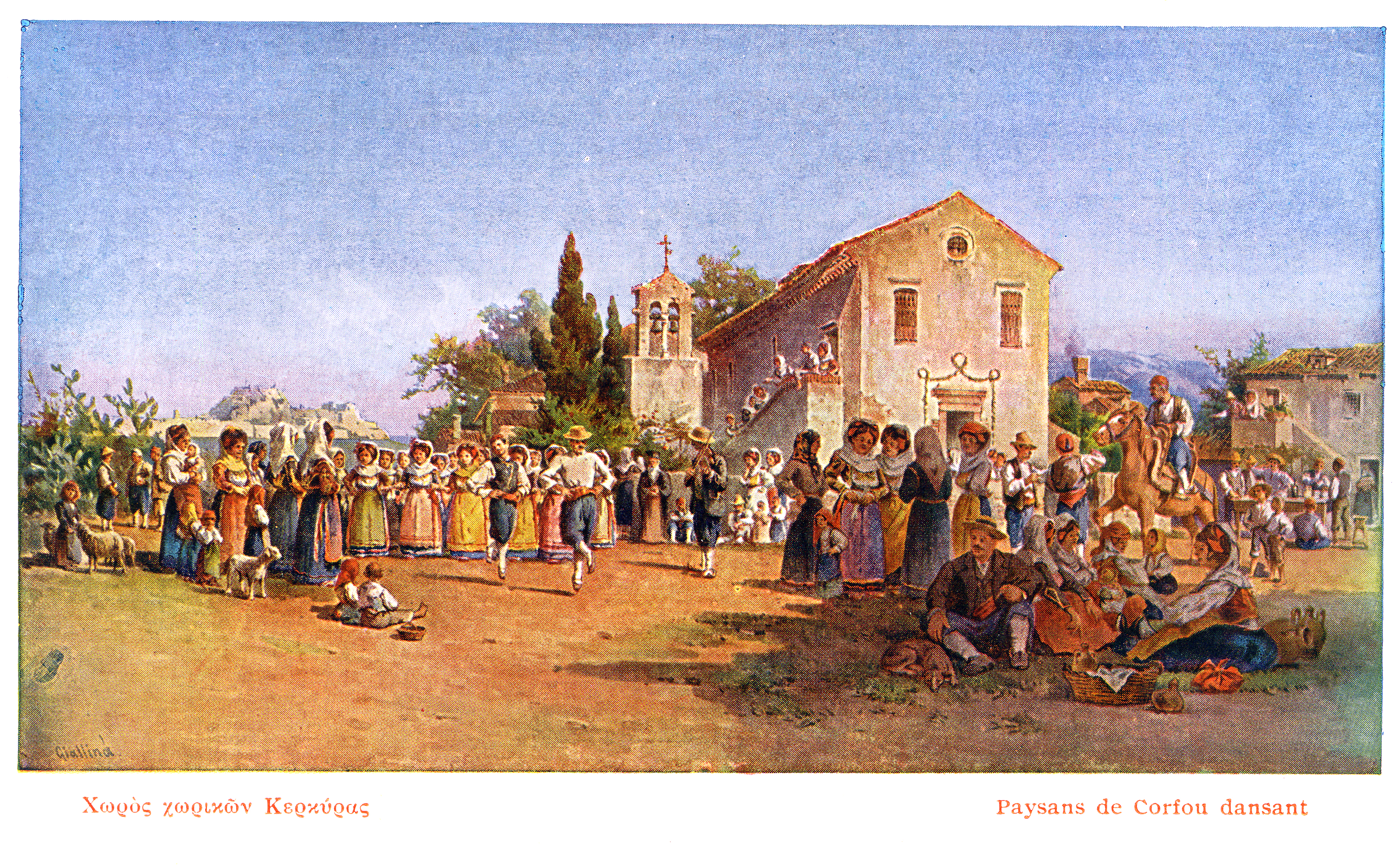 Corfiot peasant dance. Postcard published by Aspiotis. Reproduction of a painting by Angelos Giallinas.